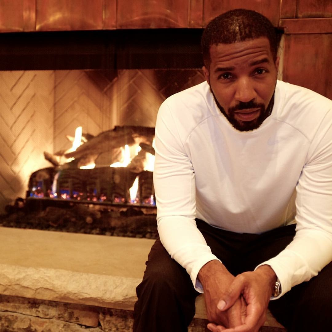 Marcus T. Grant